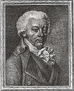 Gerrit Pijman (1750-1839), minister of War, Director, member of the Staatsbewind of the Batavian republic.